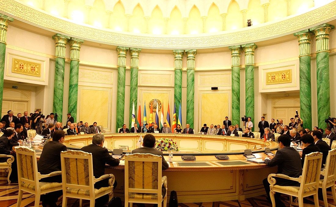 Meeting of the Eurasian Economic Community Interstate Council and the Customs Union Supreme Governing Body in expanded format.